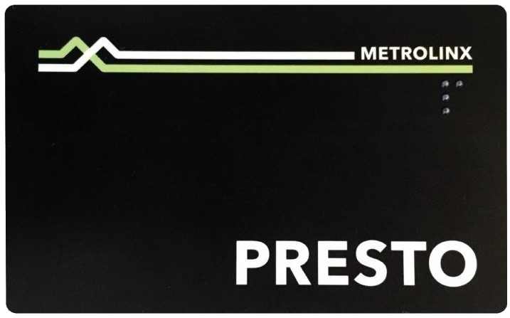 The Presto card, fourth version.